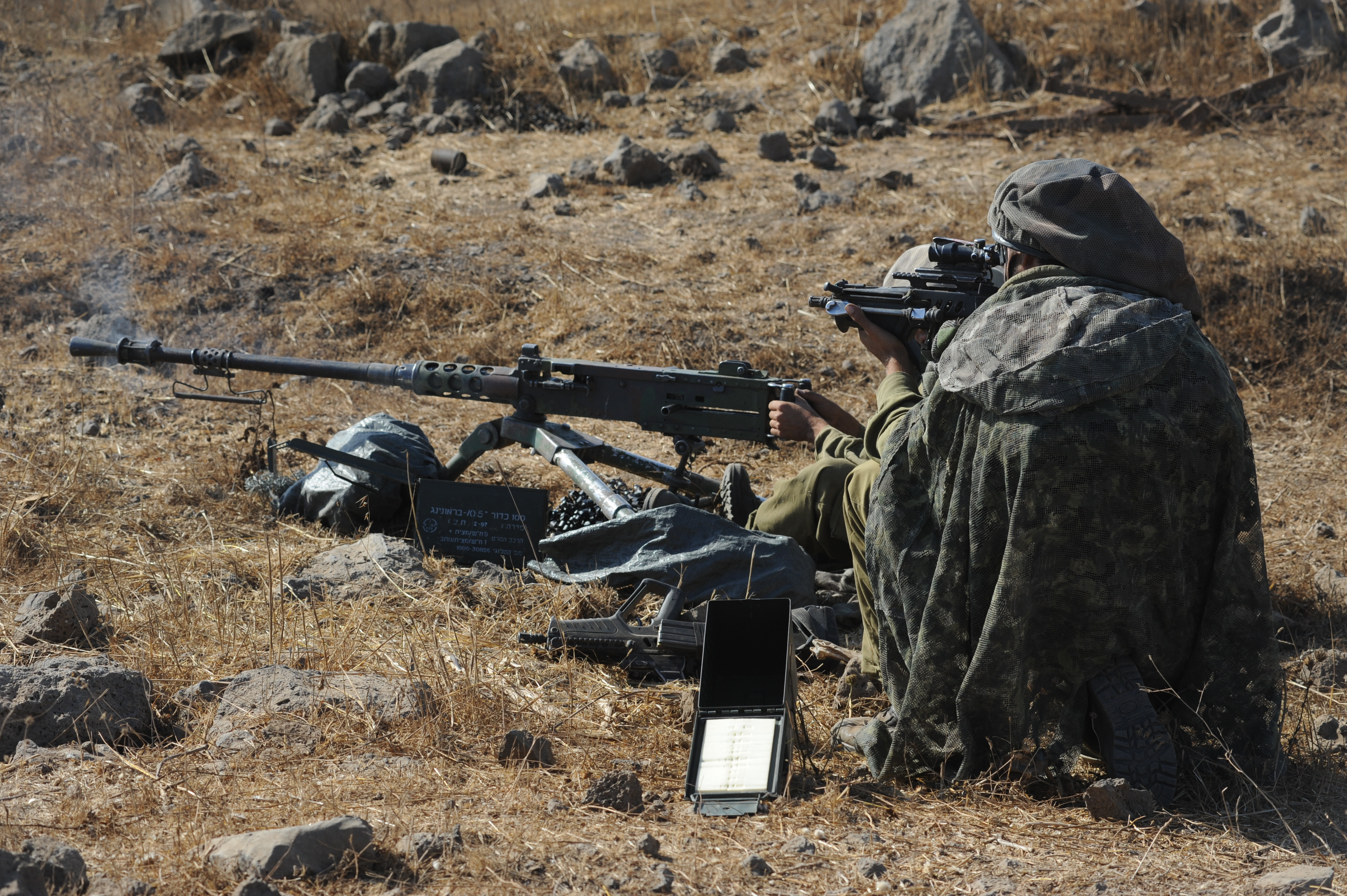 August 21, 2012 The 13th Battalion of the Golani Brigade during a drill held in the Golan Heights, northern Israel. The NAMER ("Tiger"), a new vehicle combining the artillery abilities of the Merkava tank and the APC's shielding capacities, was fully integrated in this drill for the first time, improving the battle tactics used by the IDF in the field. Photo by Staff Sgt. (res.) Abir Sultan The Israel Defense Forces Facebook • blog • Twitter